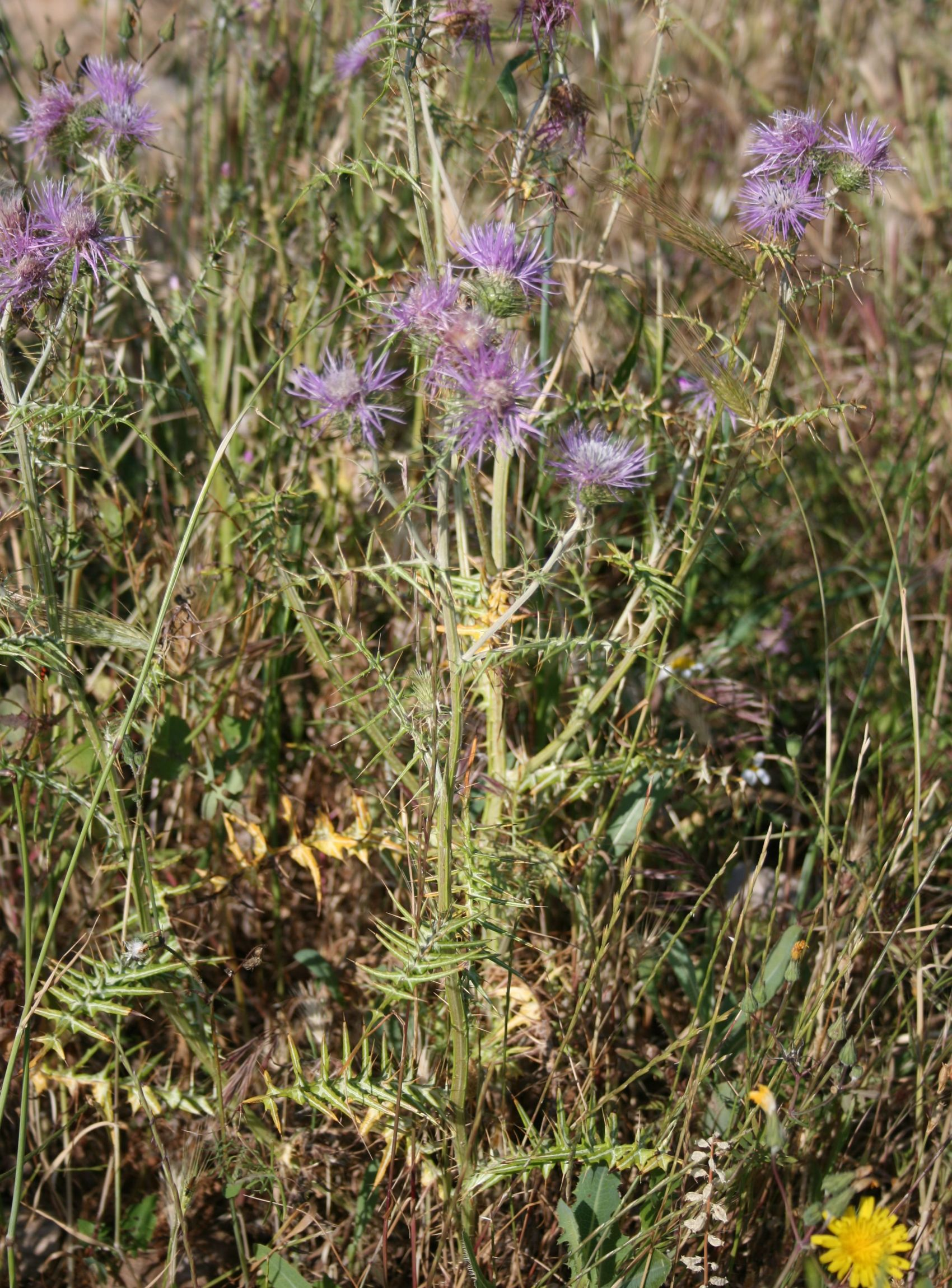 Galactites elegans, Korbblütler (Asteraceae) - Italien/Italia/Italy: Apulien/Puglia, Prov. Foggia, südöstlich unter Rignano Garganico